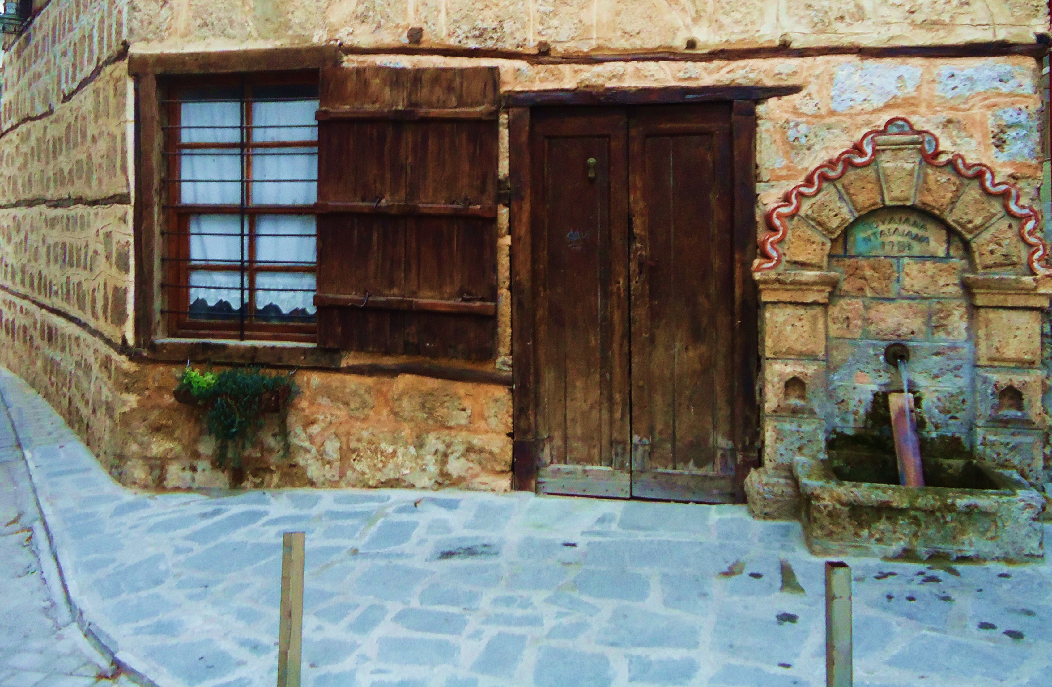 somewhere in naoussa